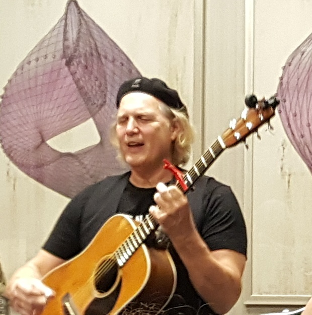 Greg Greenway in concert June 2017